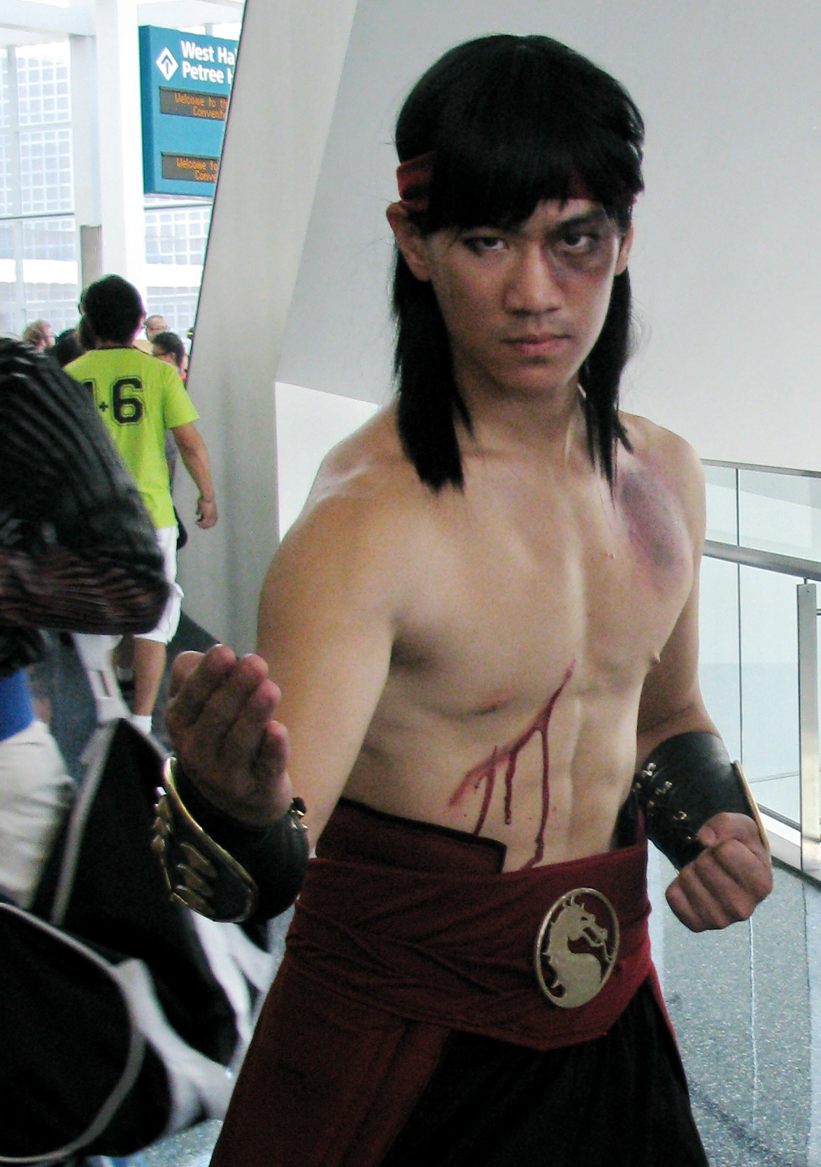 A cosplay of Lui Kang from Mortal Kombat